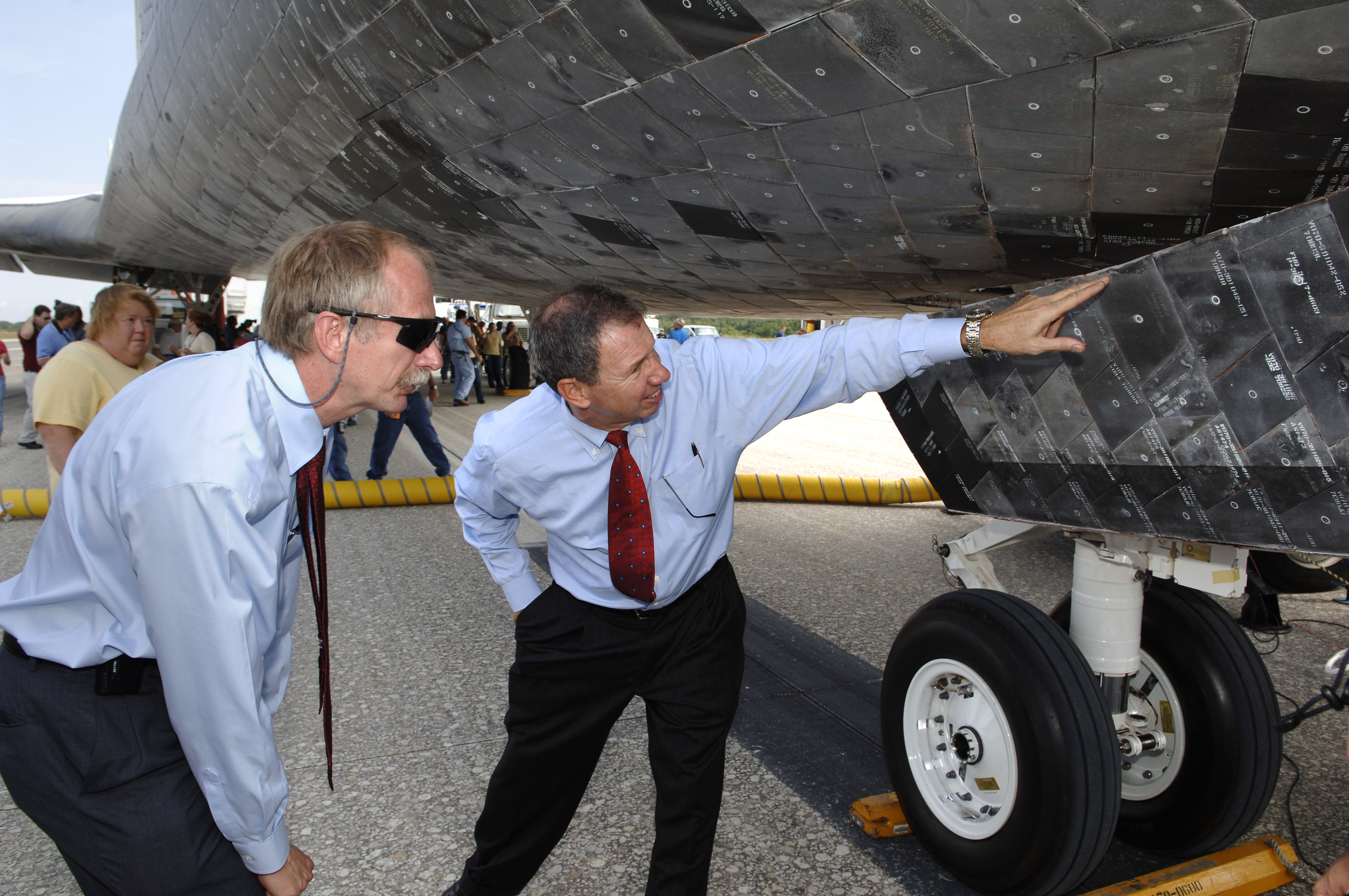 NASA Administrator, Dr. Michael Griffin (right) and William Gerstenmaier, Associate Administrator for Space Operations inspect the Space Shuttle Discovery after the landing and conclusion of mission STS-121. The STS-121 crew delivered supplies and a third crewmember to the International Space Station and continued evaluation of new safety procedures.